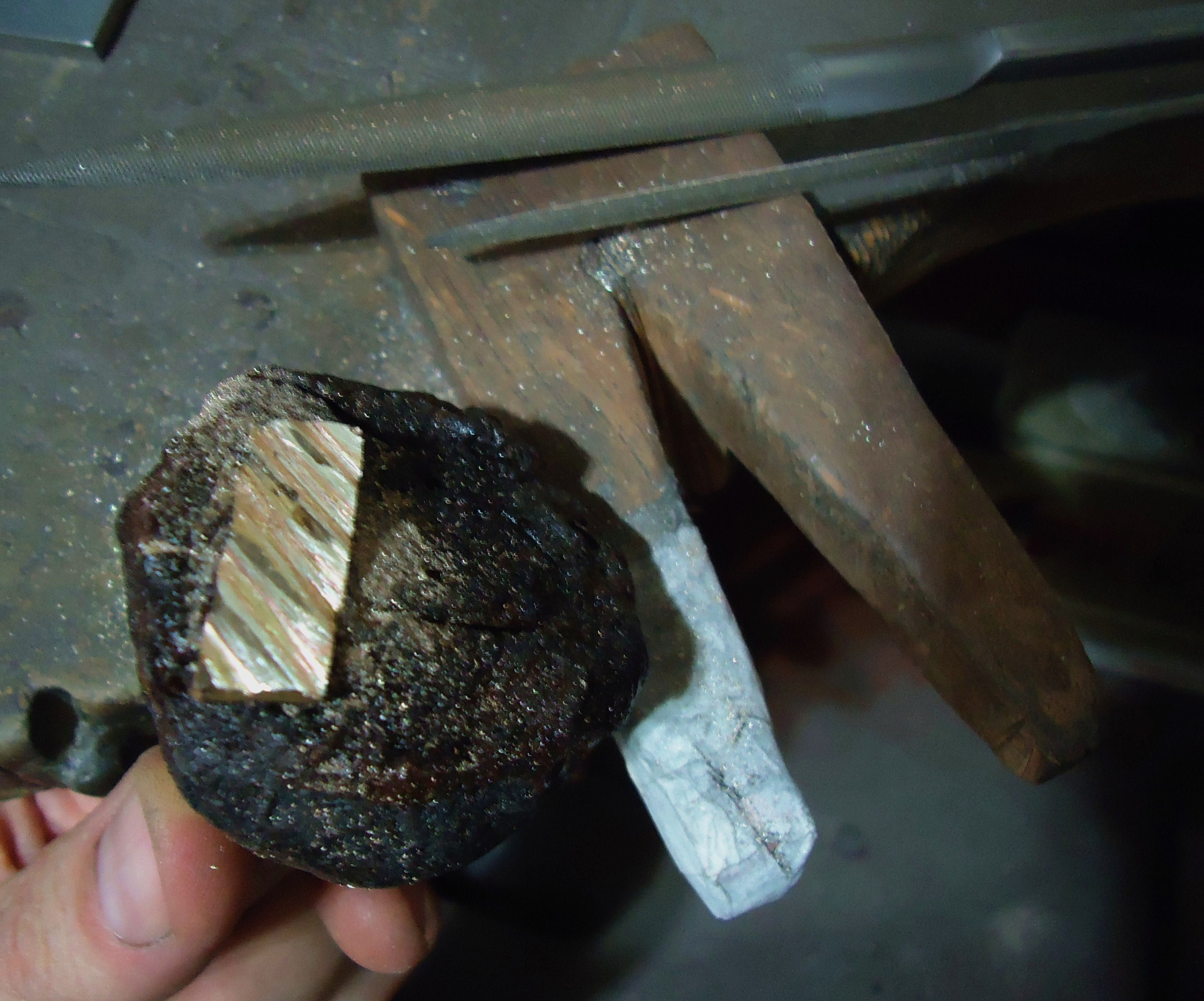 Using files to carve a small mokume-gane billet. Mauro Cateb, Brazilian jeweler and silversmith.